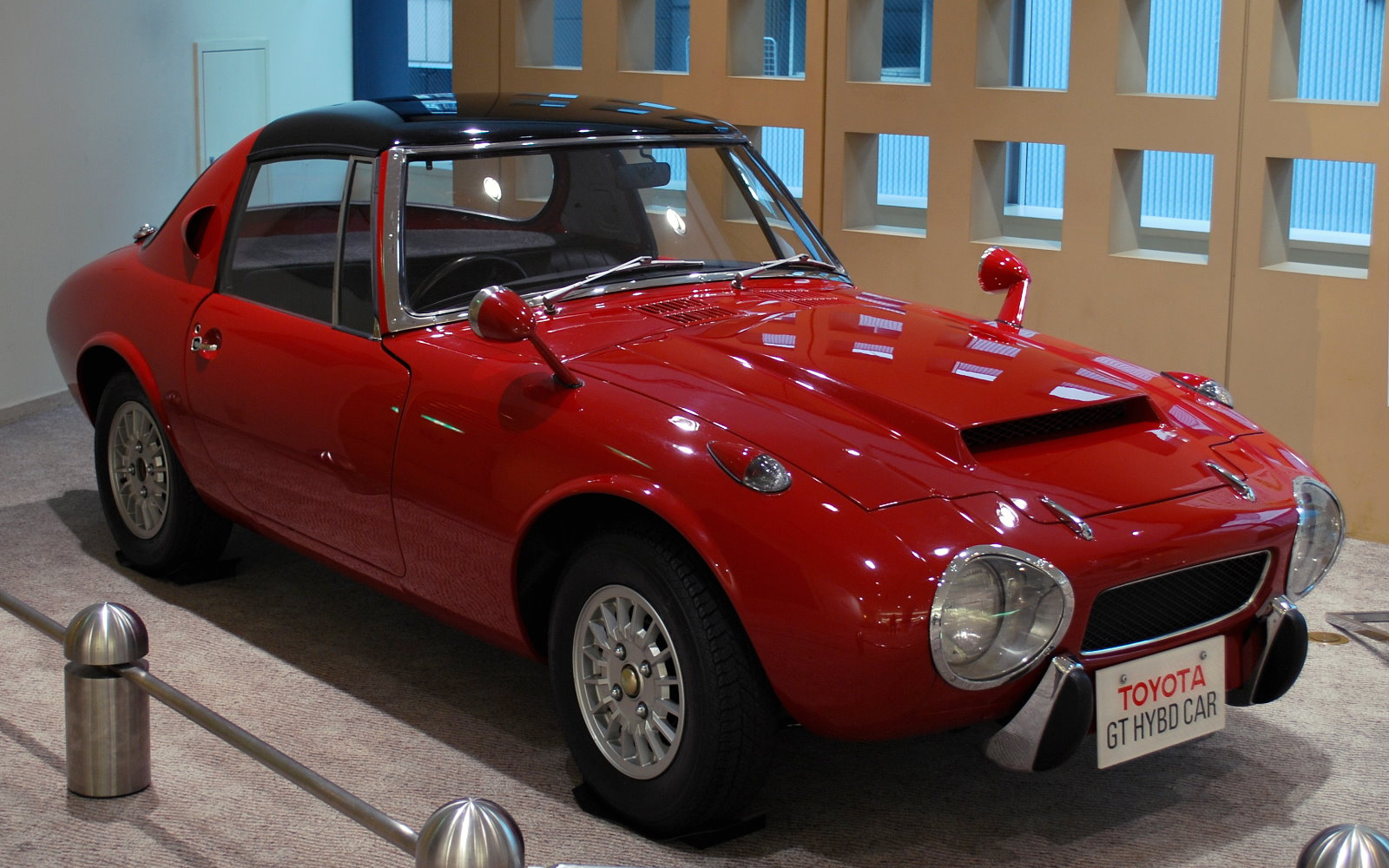 Toyota Sports 800 Gas Turbine Hybrid